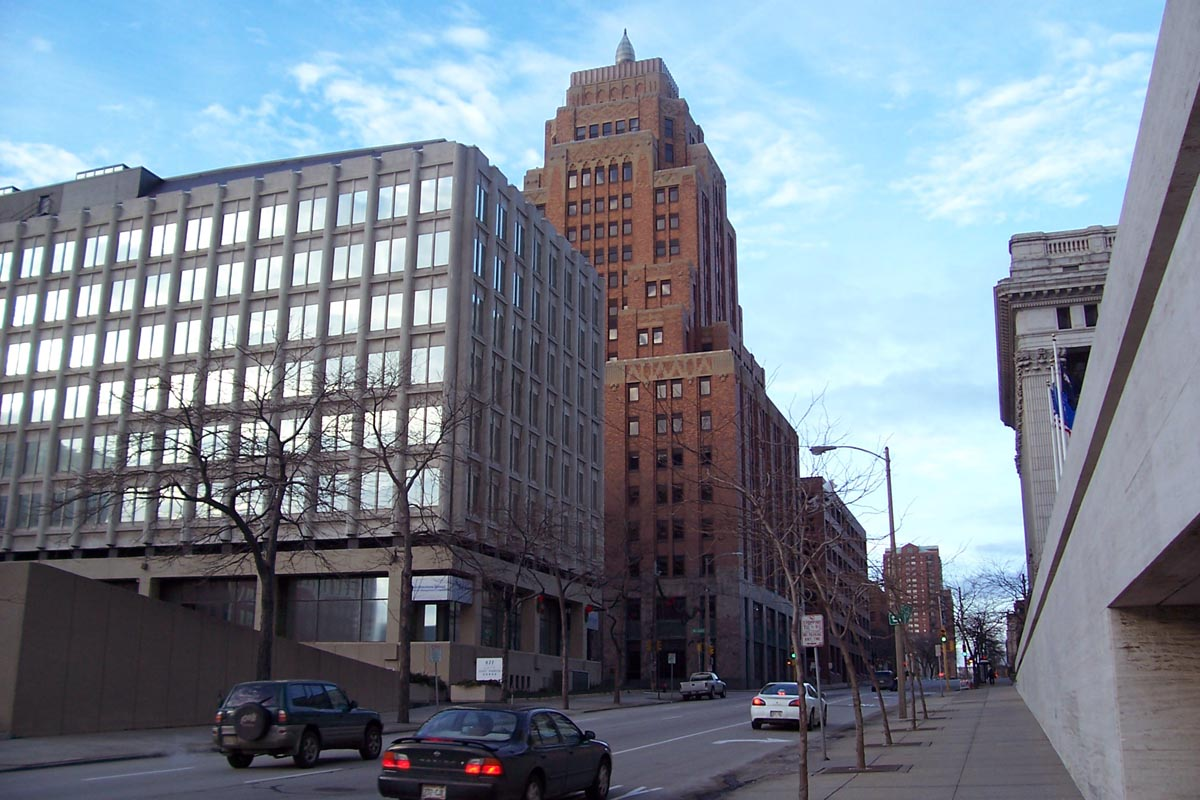 Copyright © 2005 Sulfur The Wisconsin Gas Building is a classic stepped Art Deco high-rise located in downtown Milwaukee, Wisconsin.